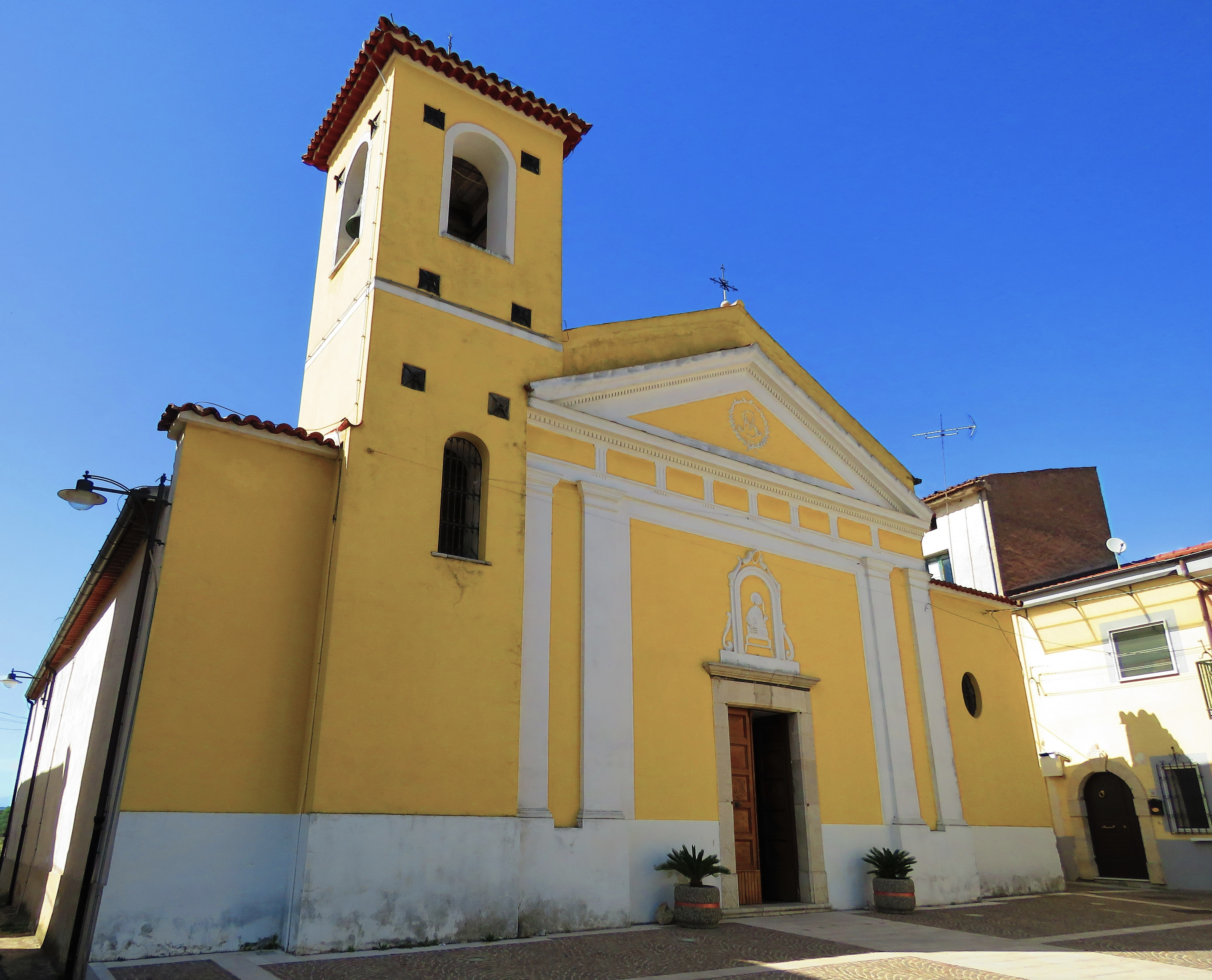 Santa Maria delle Grazie church. Pertosa